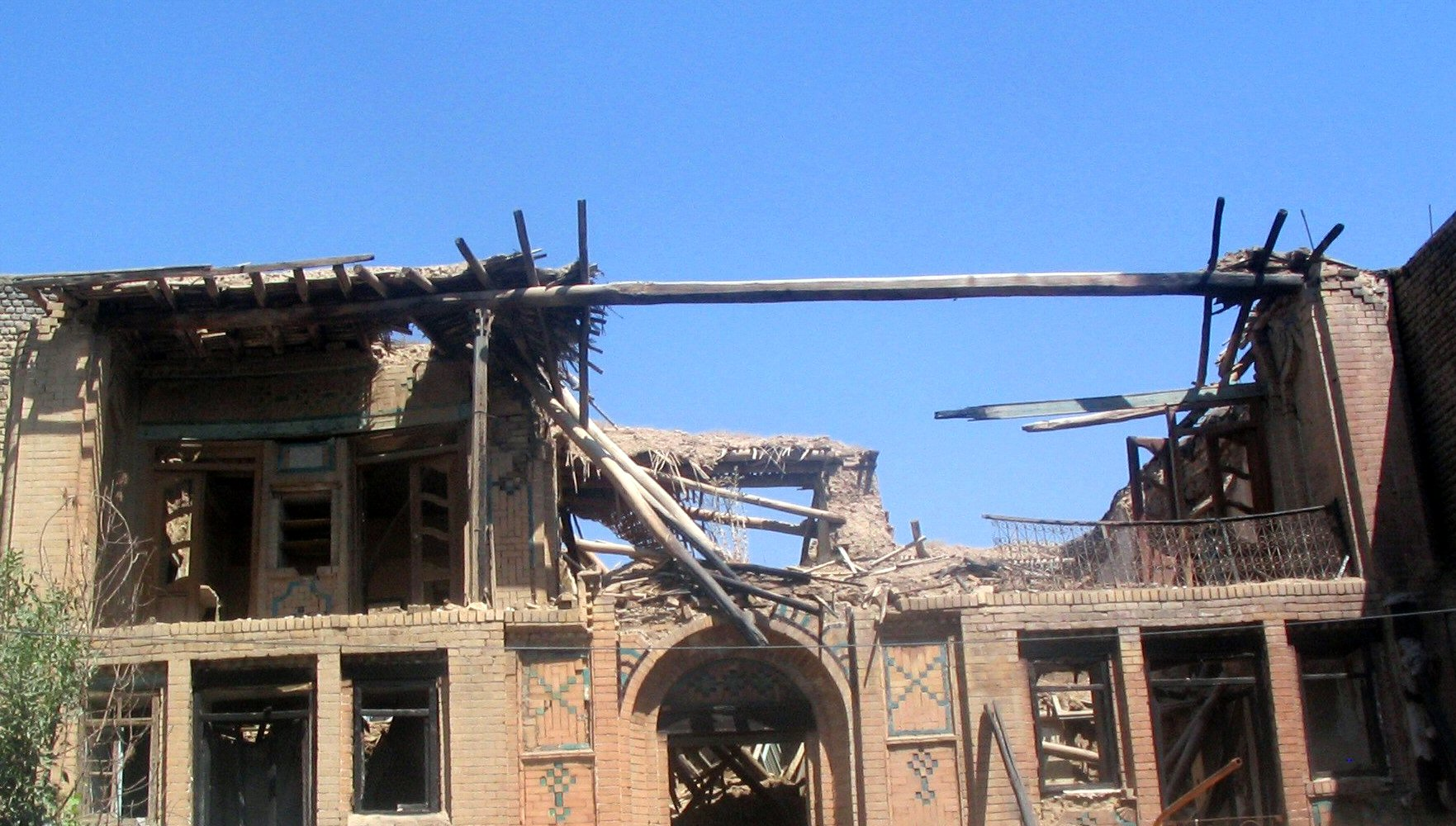 An old house in Borujerd from Qajar era ruined by earthquake